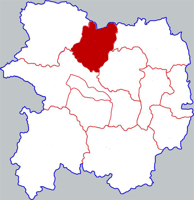 Location of Qianyang county in Baoji city, China